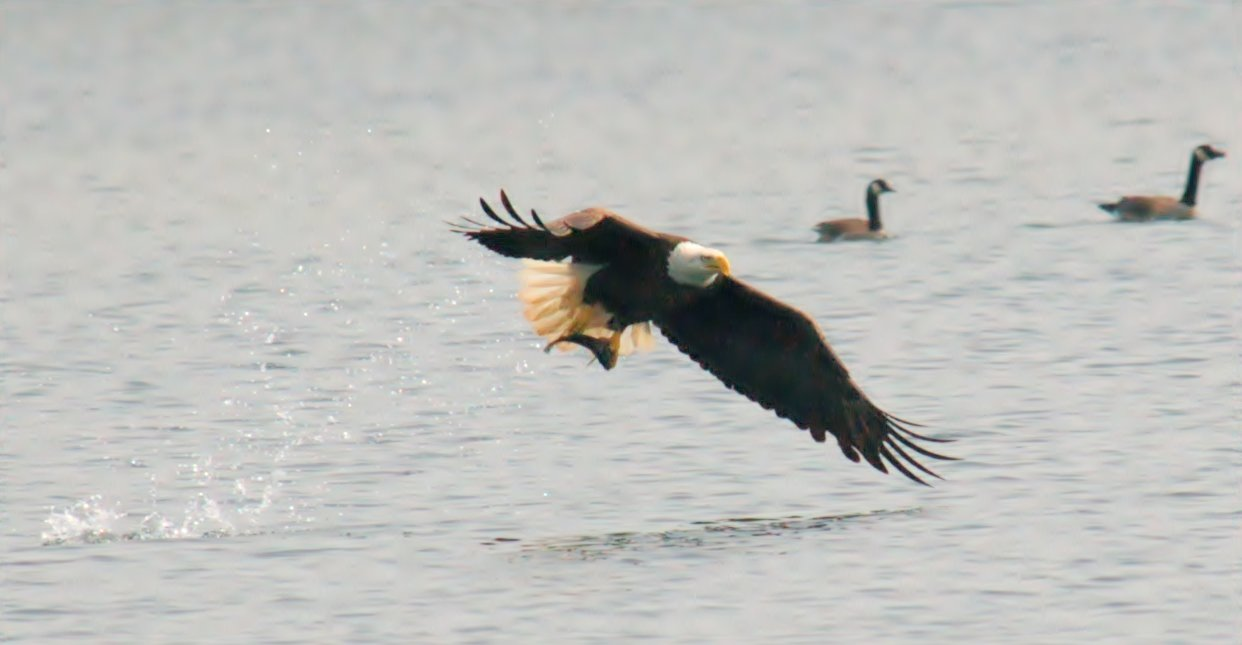 A Bald Eagle with a freshly caught fish. Taken with Nikon D50, 80-400VR at the Airlie center, Virginia, USA.